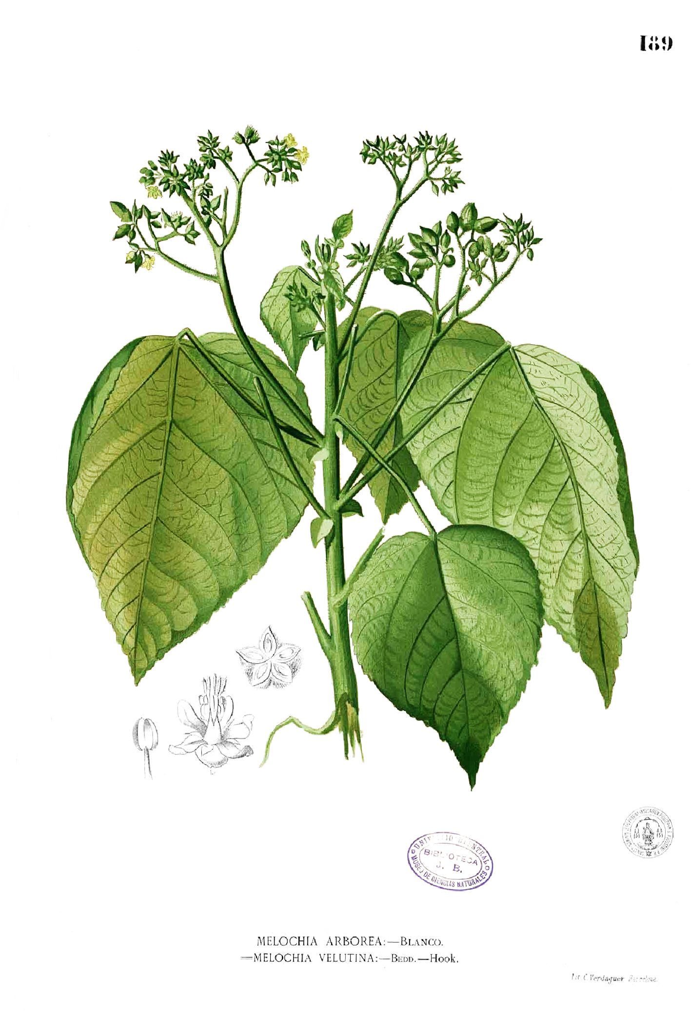 Plate from book Melochia arborea